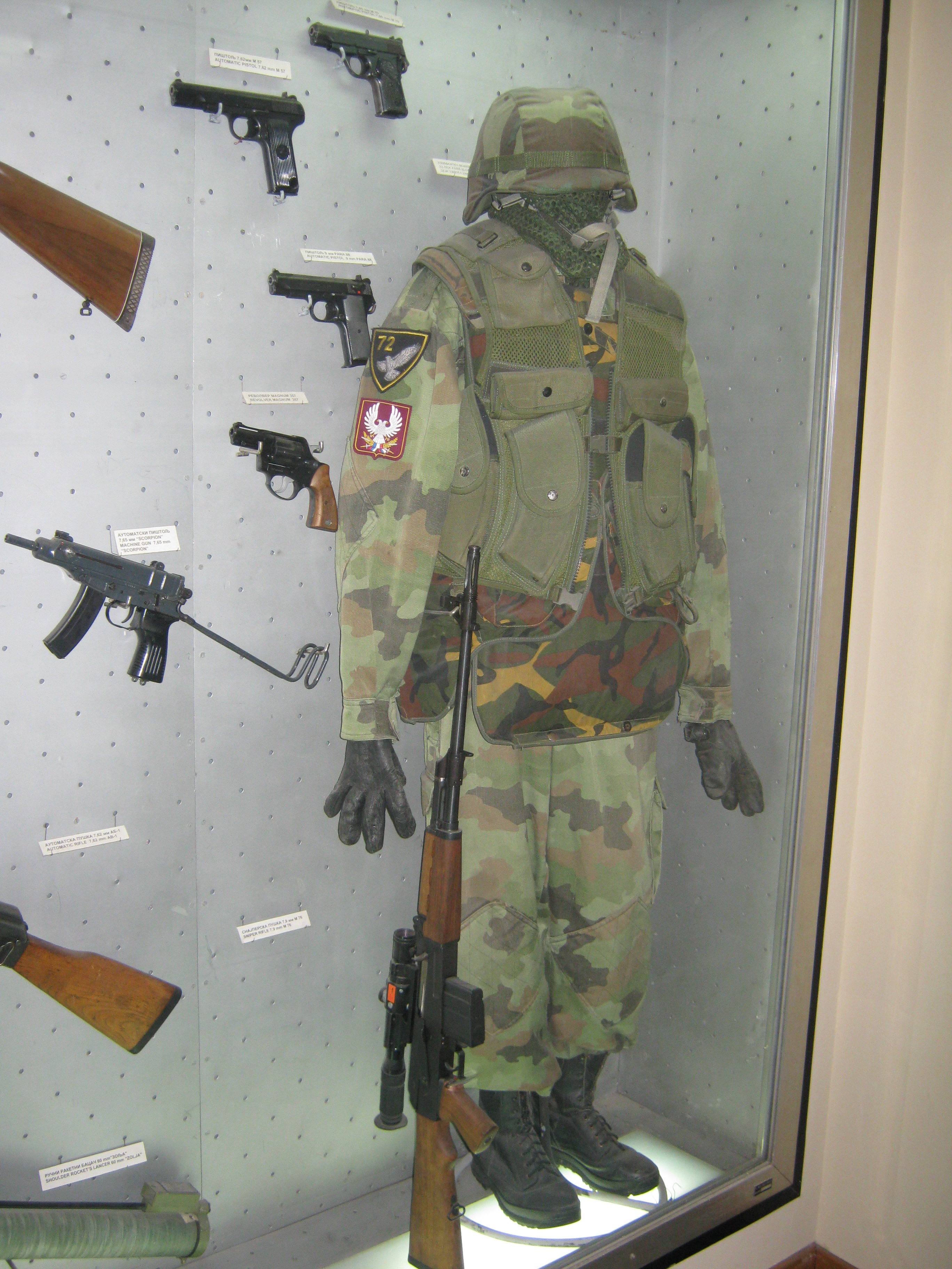 Equipment of 72nd Special Brigade in Kosovo War 1999 year. Photo taken in:Military museum Belgrade